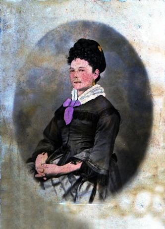 Histórica para Camiri